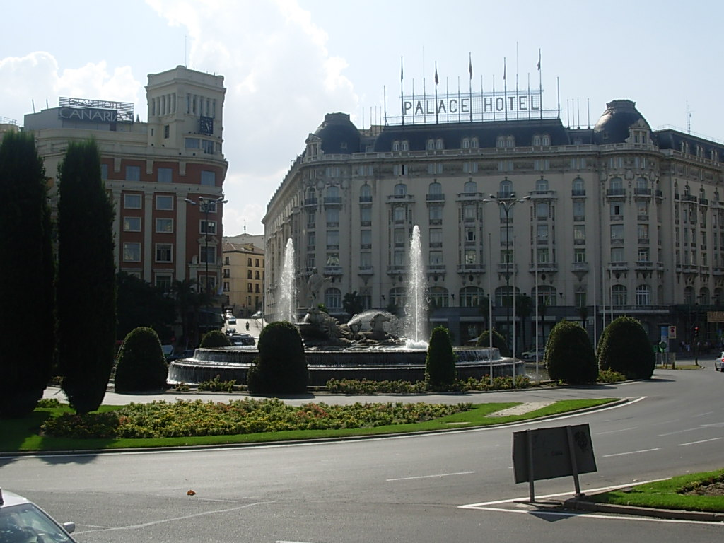 Plaza de Cánovas del Castillo (square) in Madrid (Spain). In the background, the Palace Hotel.